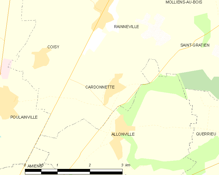 Map of French municipality Cardonnette